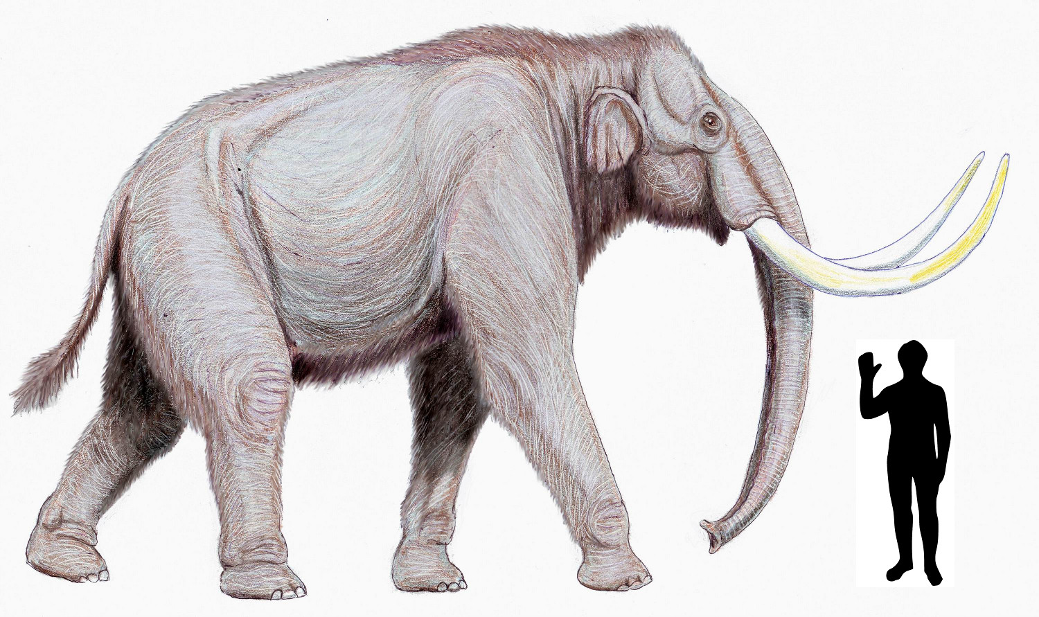 Derivative of File:Mammuthus trogontherii122DB.jpg